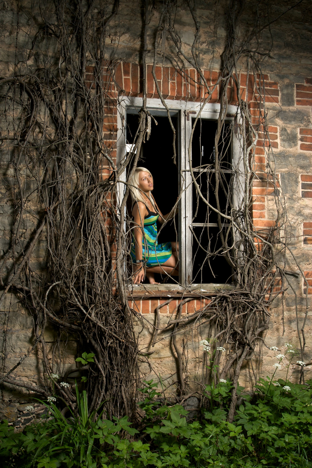 Blonde woman at the window of a building.